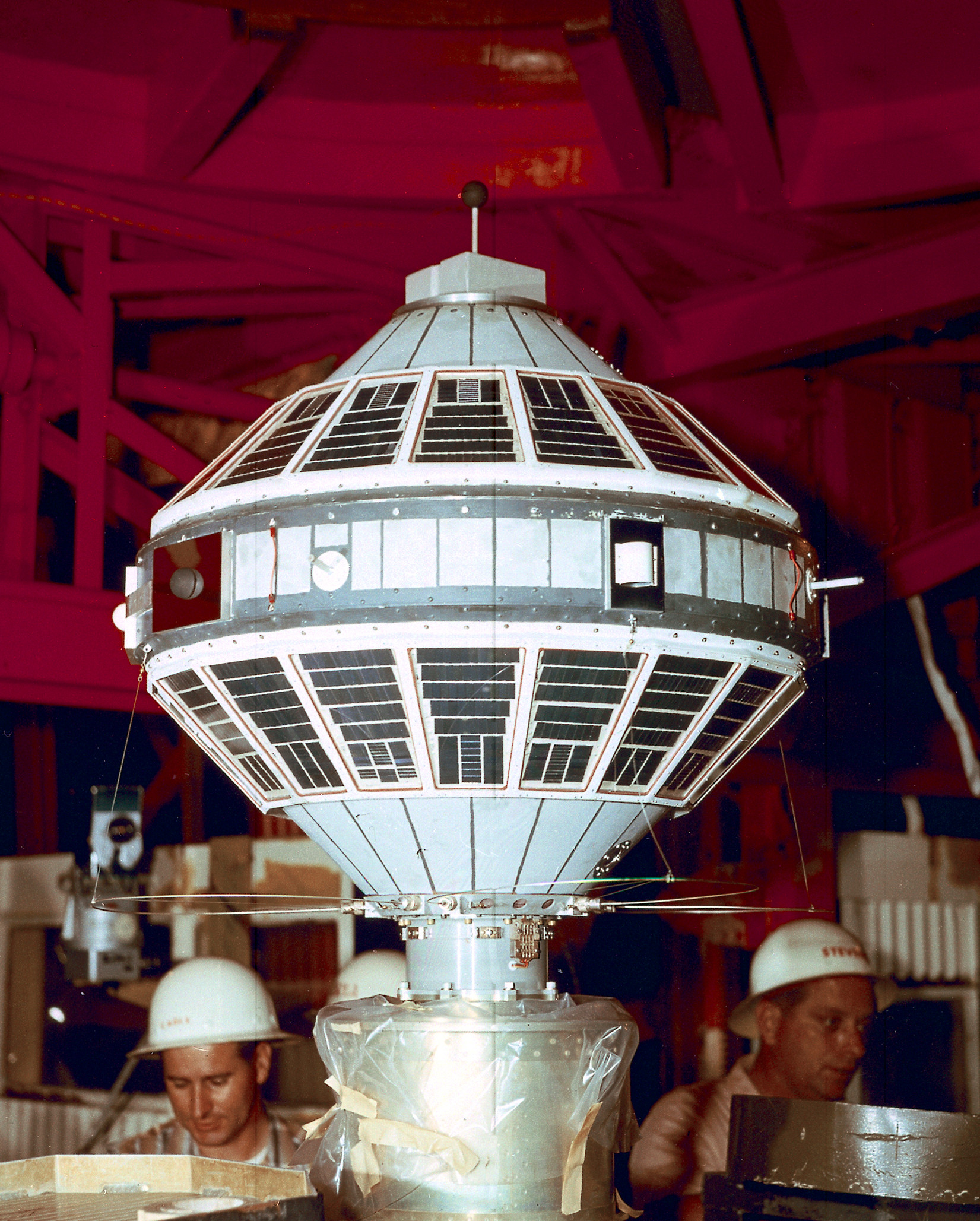 Juno II was a part of America's effort to increase its capability to lift heavier satellites into orbit. One payload was Explorer VII. This photograph depicts workers installing the Explorer VII satellite on Juno II (AM-19A) booster. The Explorer VII investigated energetic particles and obtained data on radiation and magnetic storms. The successful launch of Juno II took place on October 13, 1959.